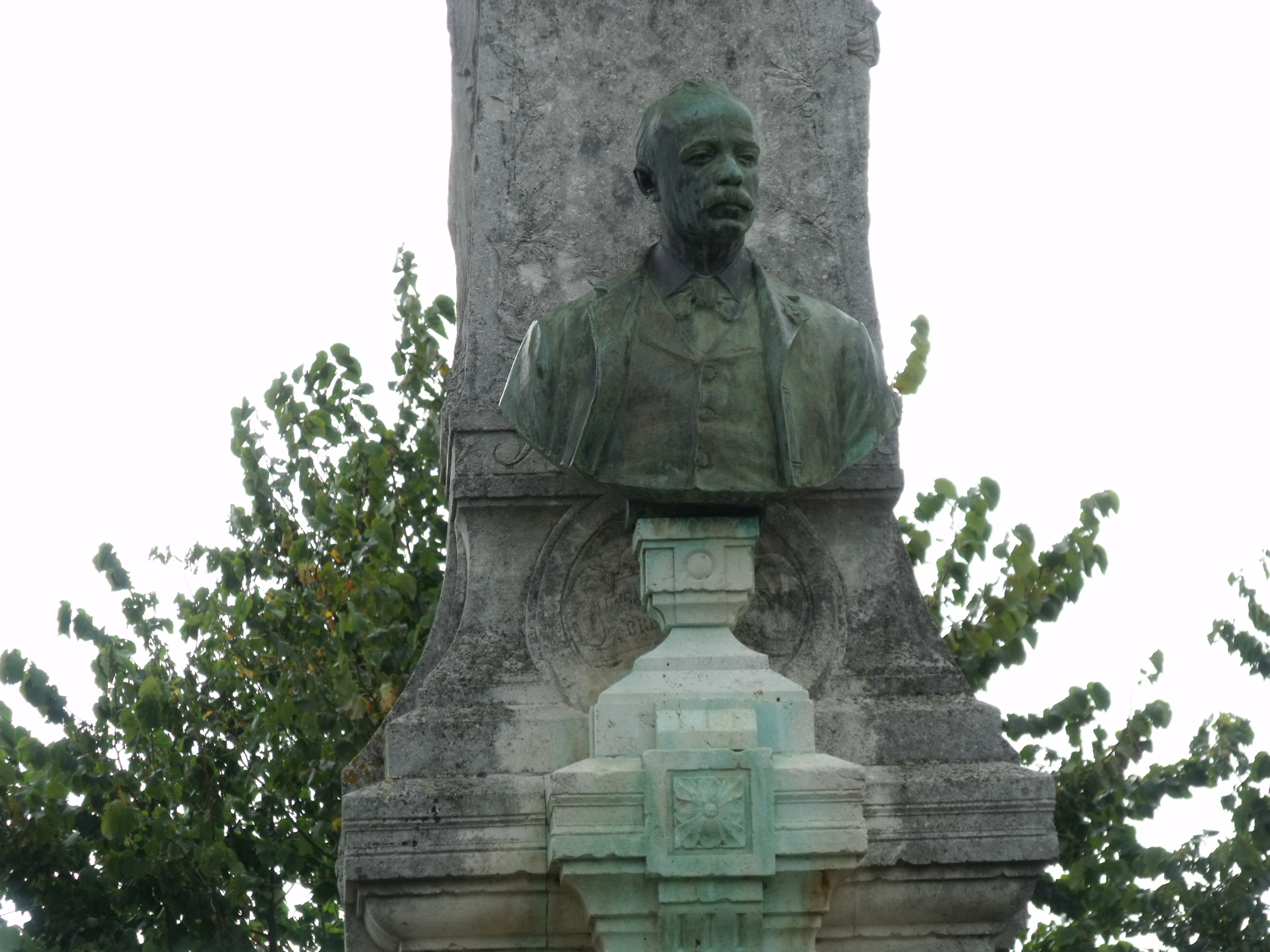 Monument to Pietro Aldi on Piazza Garibaldi in Manciano, Maremma, Province of Grosseto, Tuscany, Italy